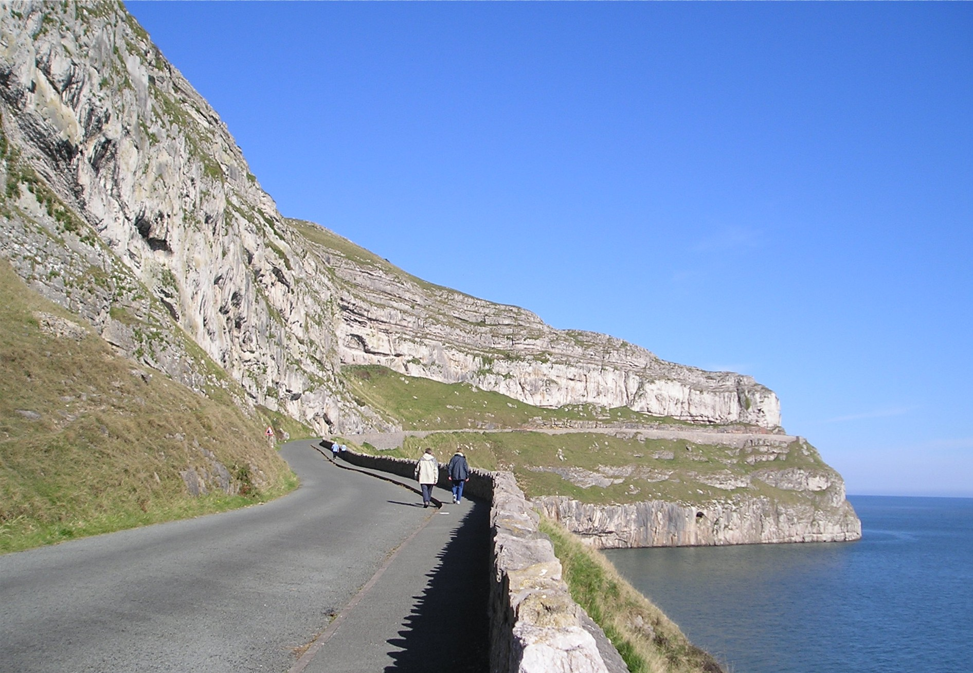 The Marine Drive at Llandudno photographed by me, Noel Walley, on 17/04/2004